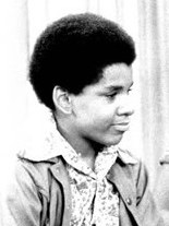 Ralph Carter (Michael), from a photo of the Evans family from the television program Good Times.